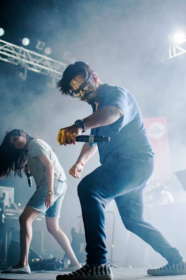 Amit Trivedi performing in Oasis 2016